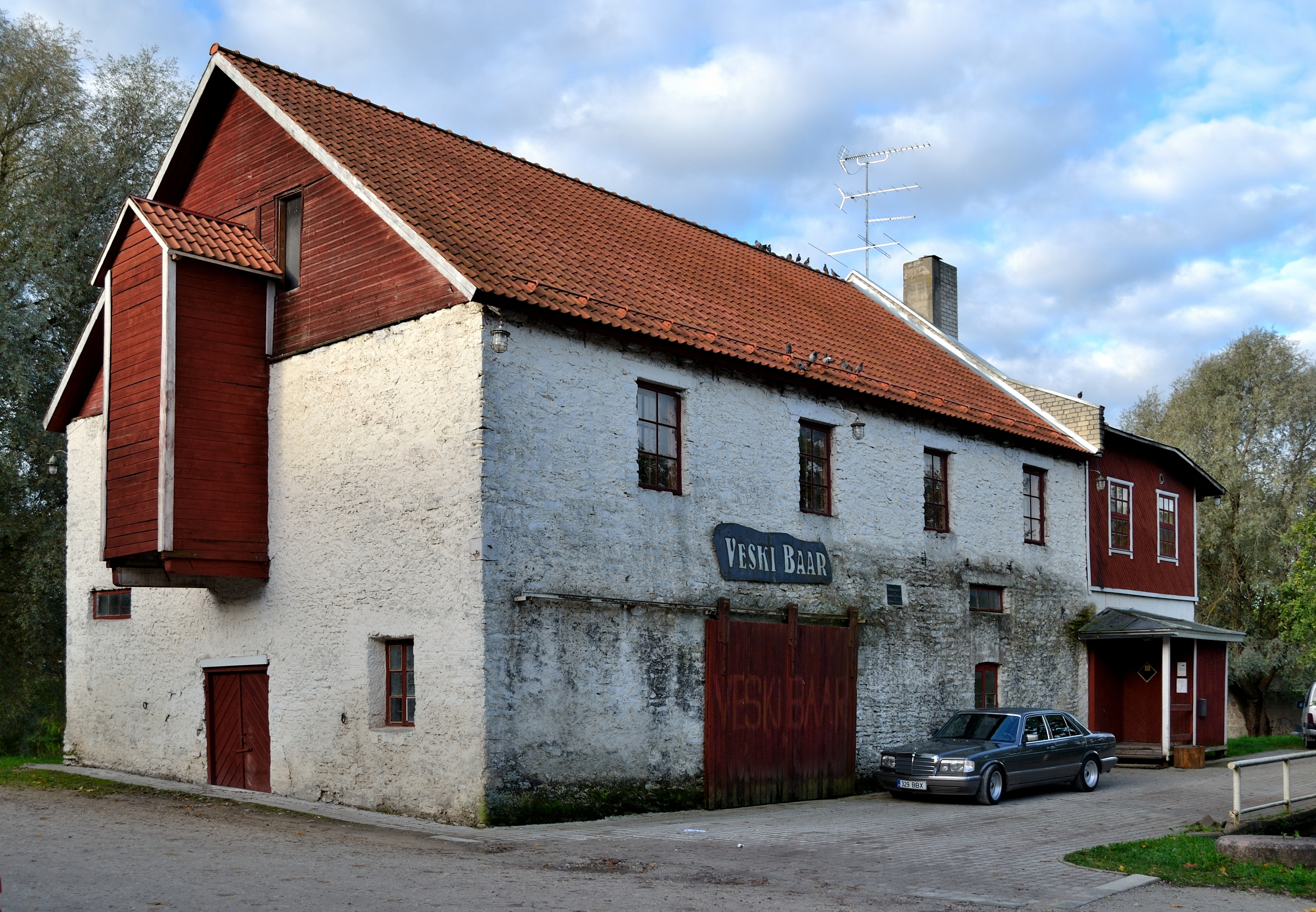 Kohila watermill